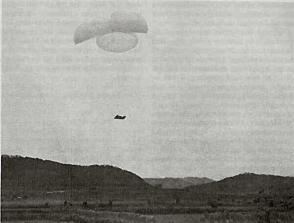 US artillery airdrop near Sukchon, North Korea, October 1950